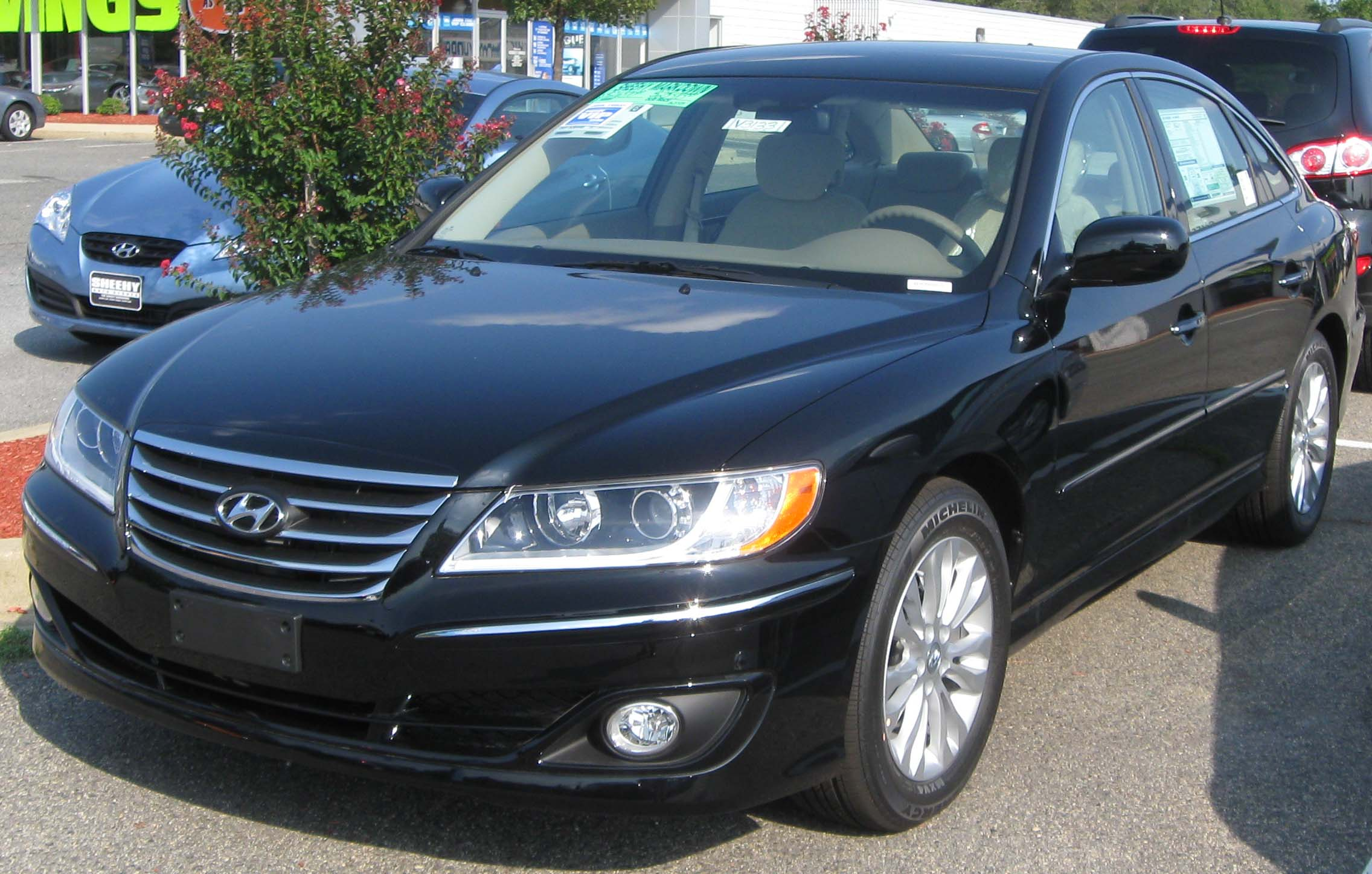 2011 Hyundai Azera photographed in Waldorf, Maryland, USA.